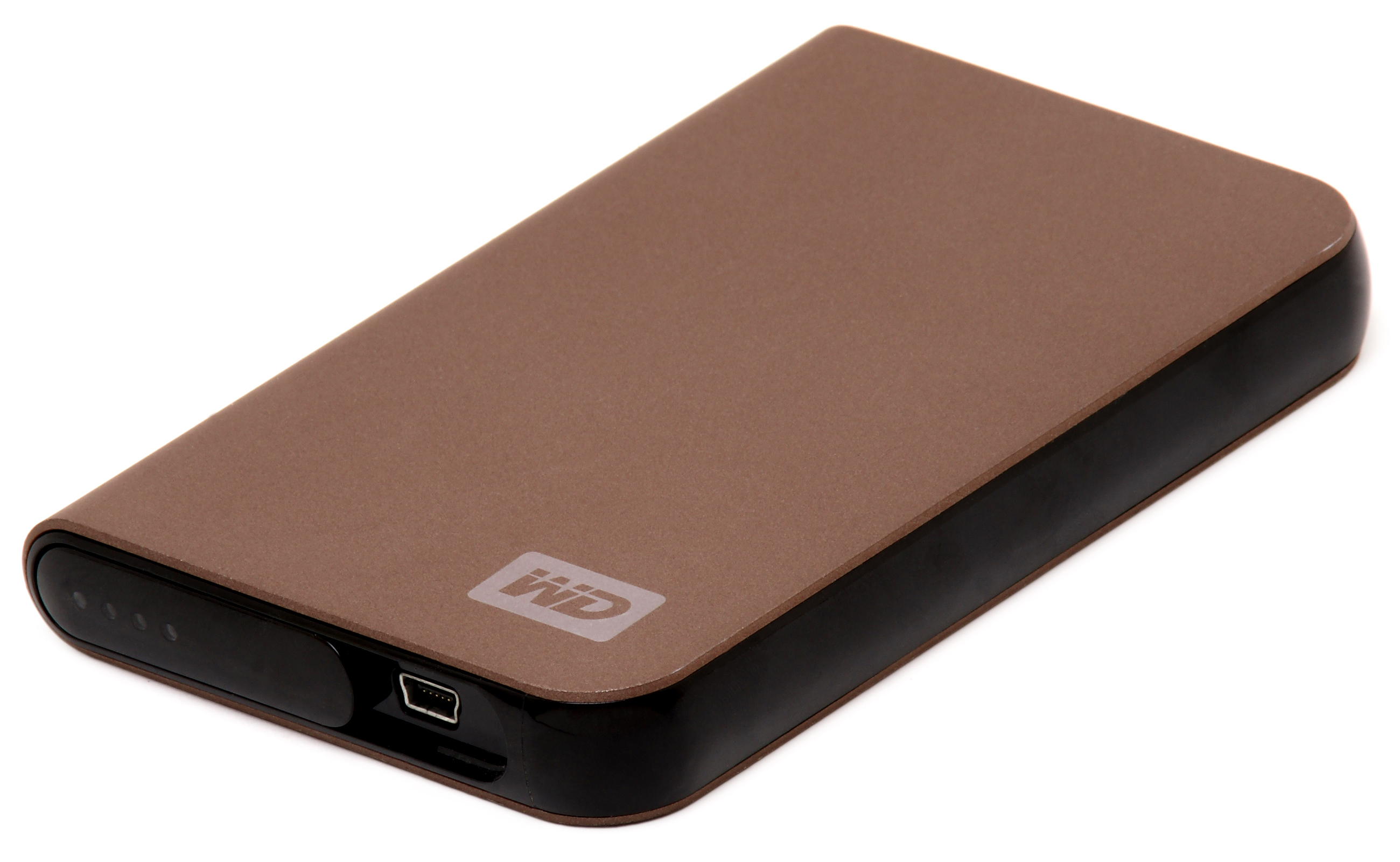 A USB hard drive. This is made by Western Digital and uses a mini B USB connection for both power and data transfer.